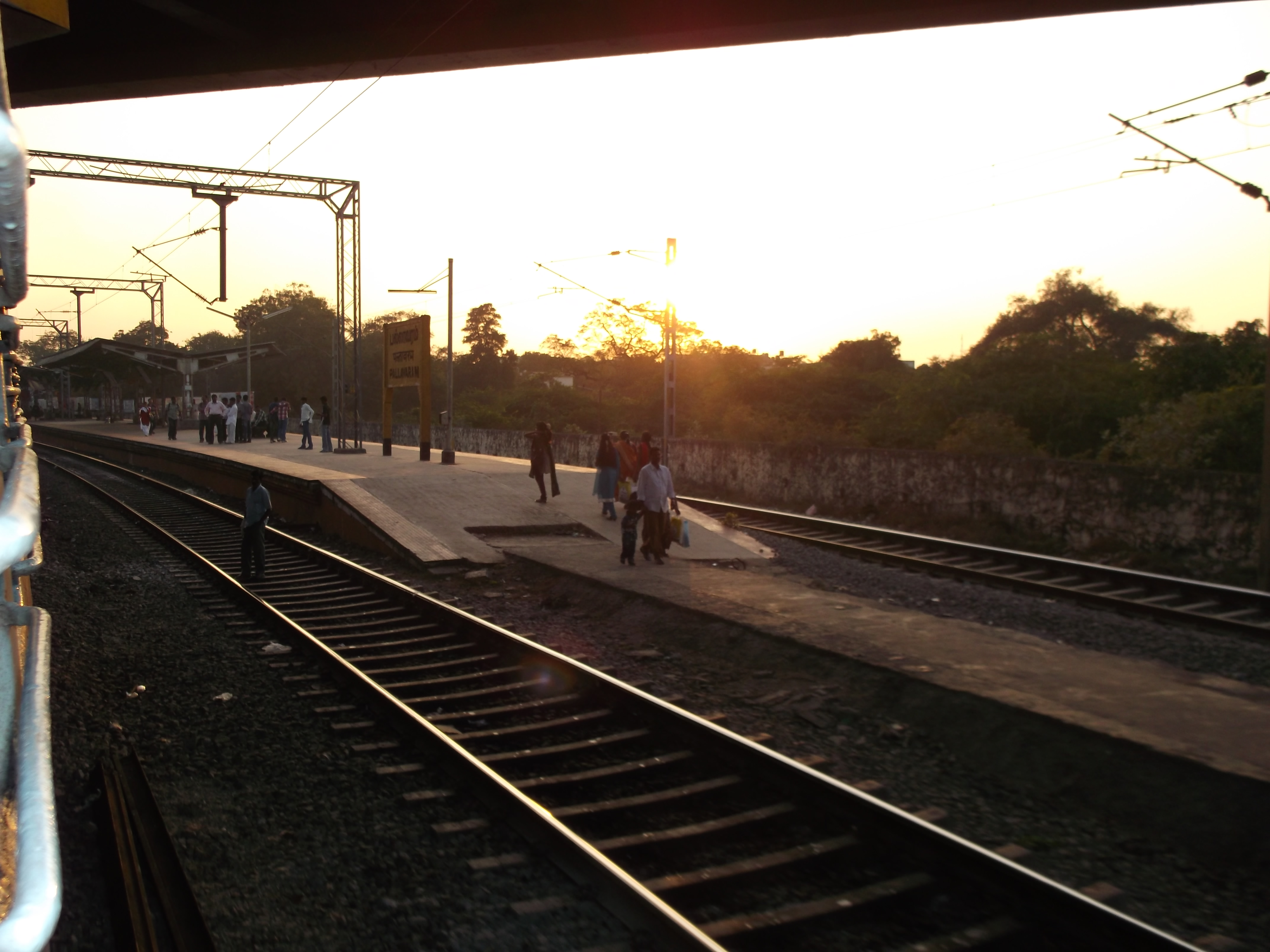 Pallavaram railway station, View 2, taken on 27-Jan-2013 at 6:00 pm.